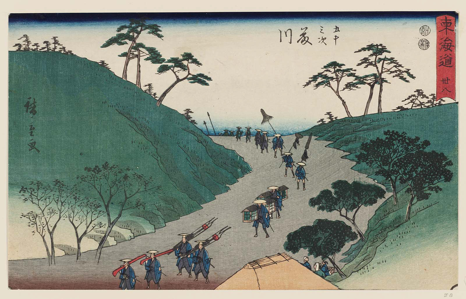 No. 38 - Fujikawa, from the series The Tôkaidô Road - The Fifty-three Stations (Tôkaidô - Gojûsan tsugi), also known as the Reisho Tôkaidô